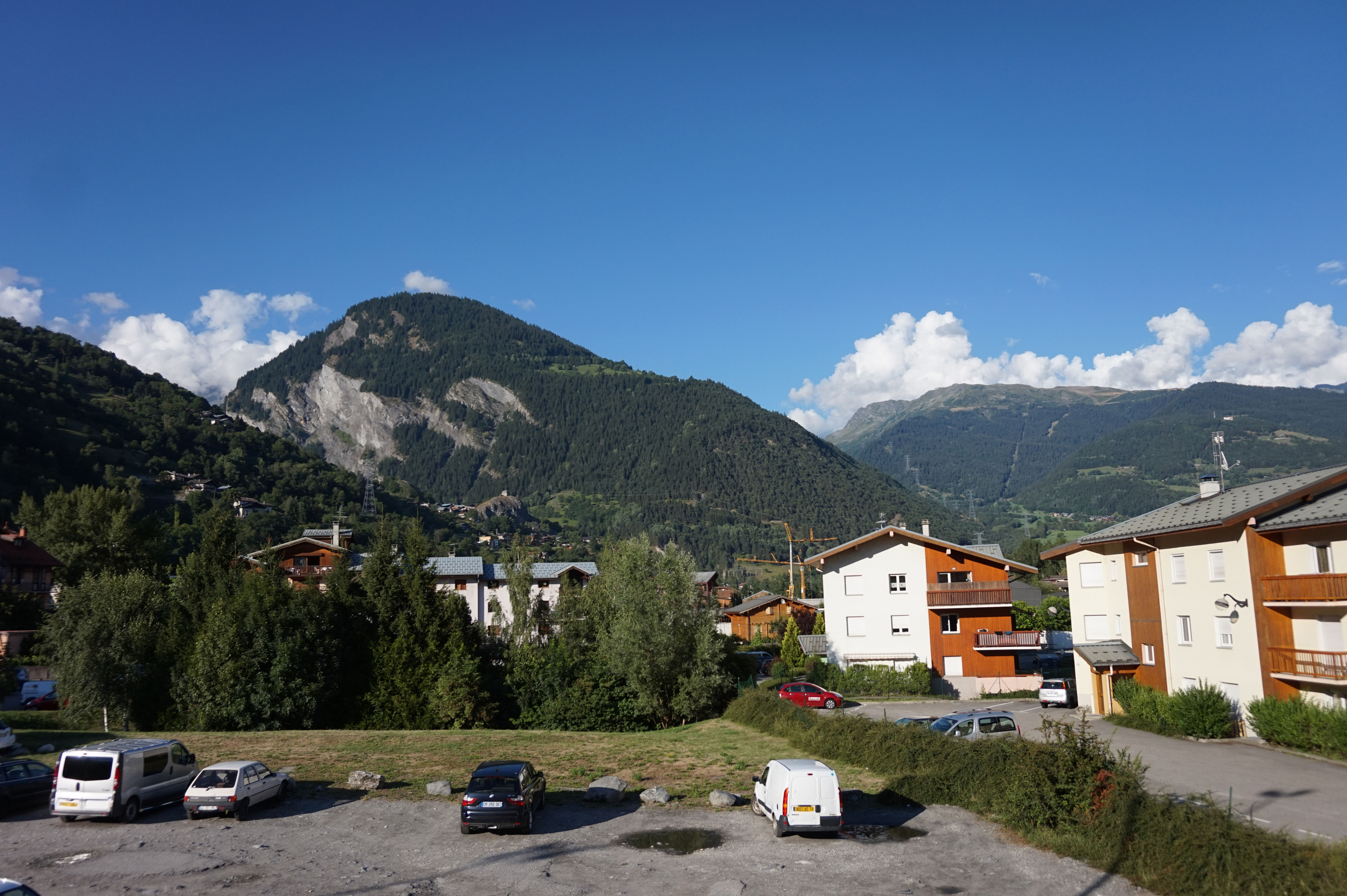 View in Bourg-Saint-Maurice, France. This photograph was taken with a Sony Alpha a5000.